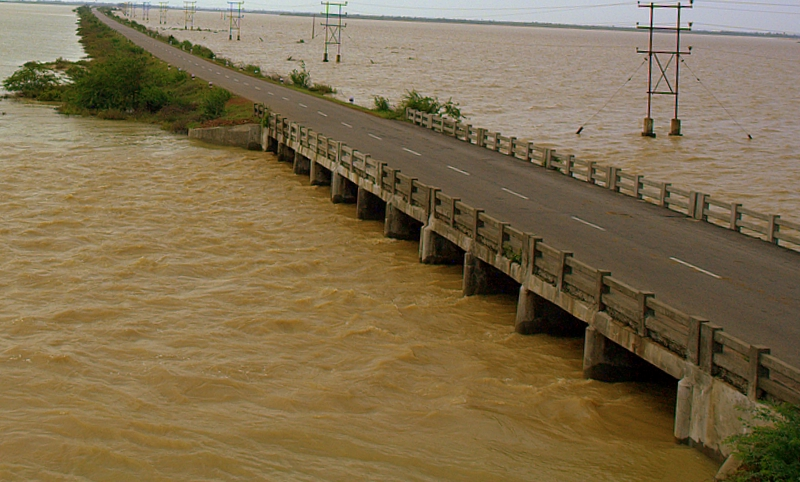 Pulicat Lake and Bird Sanctuary (Flooded due to Rains)